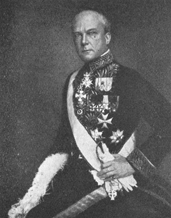 Jonas Magnus Alströmer (1877-1955), Swedish baron and diplomat.